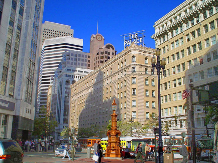 The "New" Palace Hotel, the Monadnock Building (right), and Lotta's Fountain (foreground) on Market Street, San Francisco, CA